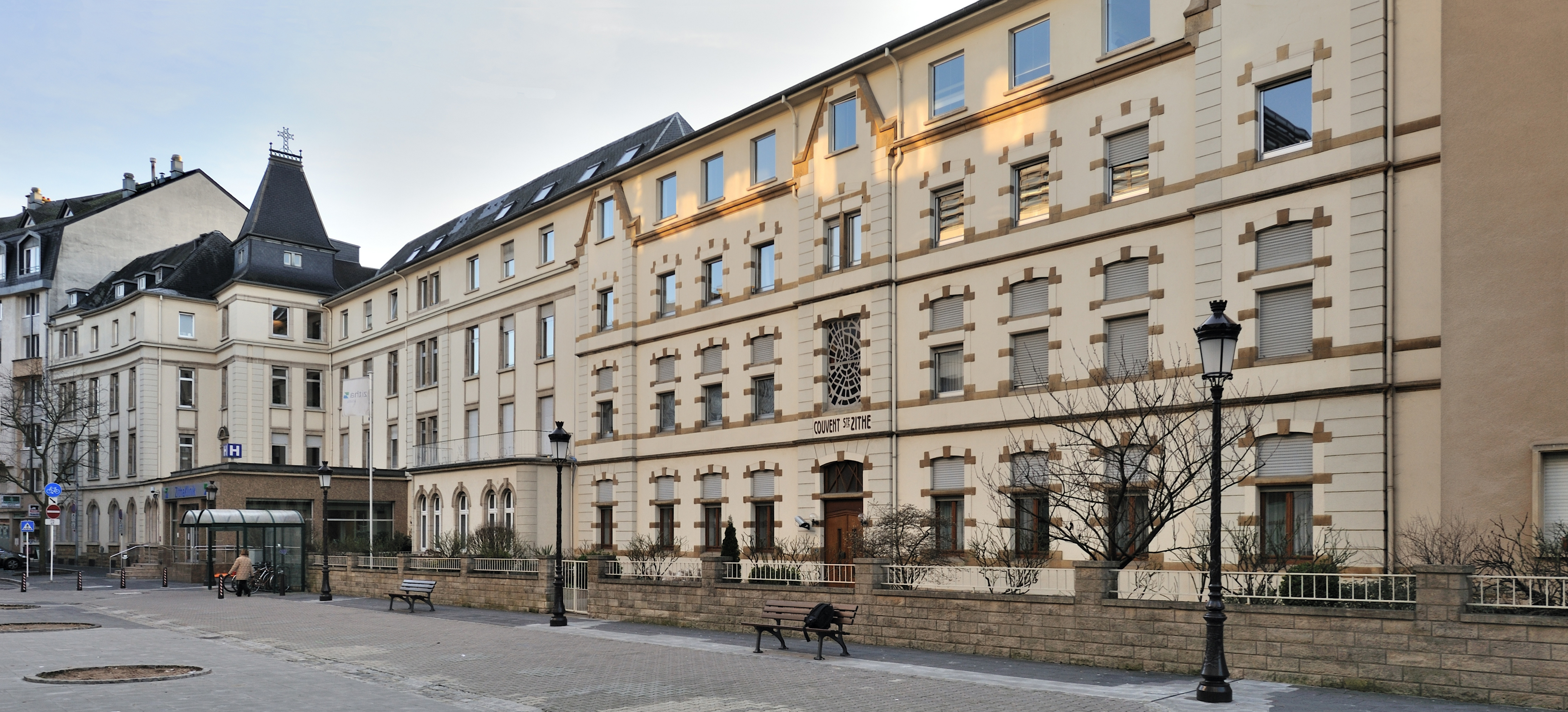 Luxembourg City: Saint Zita Convent, rue Ste-Zithe. At left: the hospital Zithaklinik (Saint Zitha Hospital).